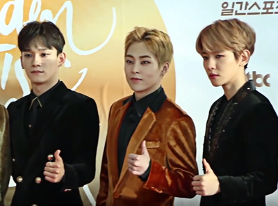 CBX on 2017 Golden Disk red carpet